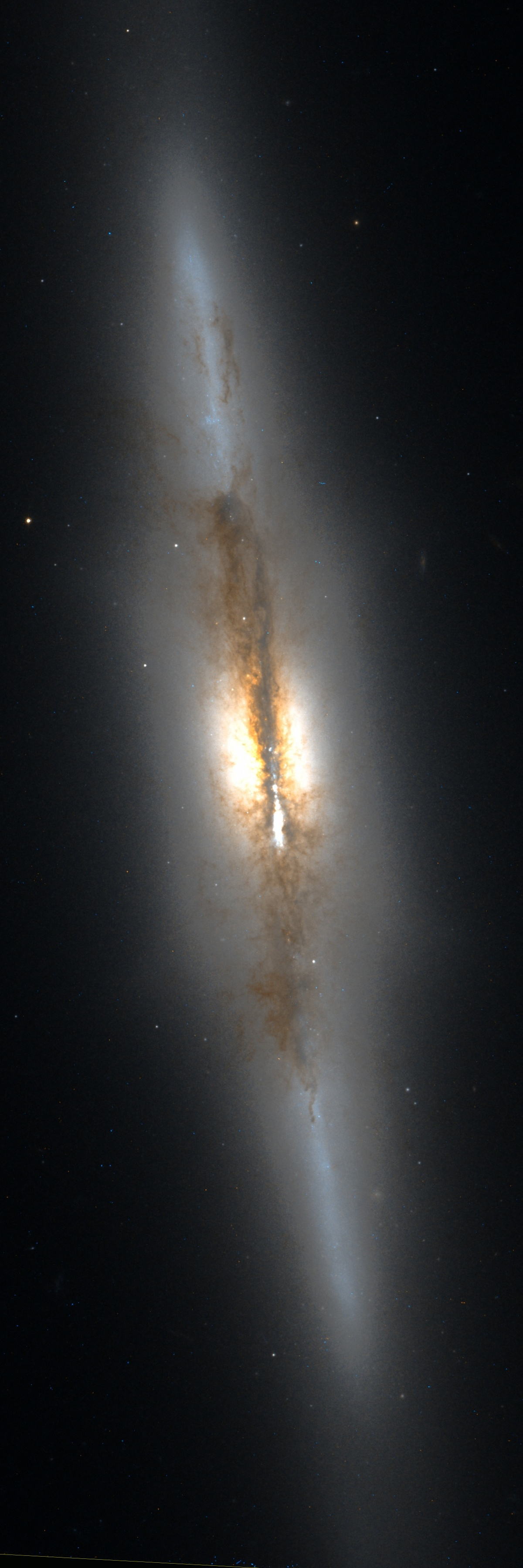 NGC 4710 by Hubble Space Telescope, 0.9′x2.7′ view